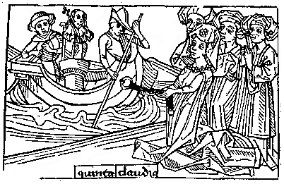 Claudia Quinta, roman legend, woodcut from late medieval period